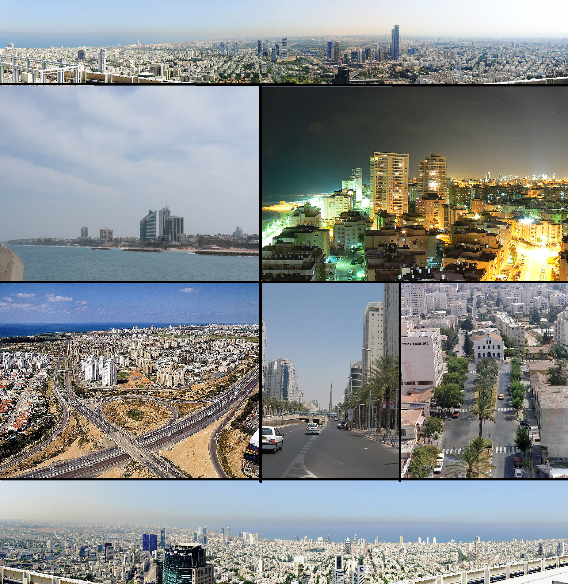 Ashdod.